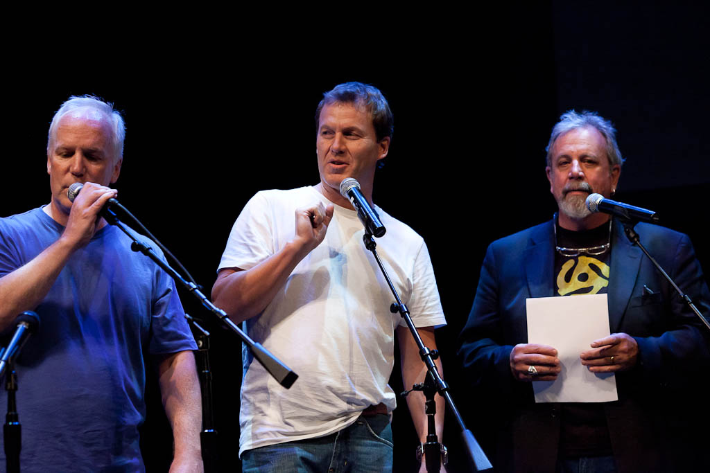 Bill Corbett, Michael J. Nelson, & Kevin Murphy at w00tstock, 2011